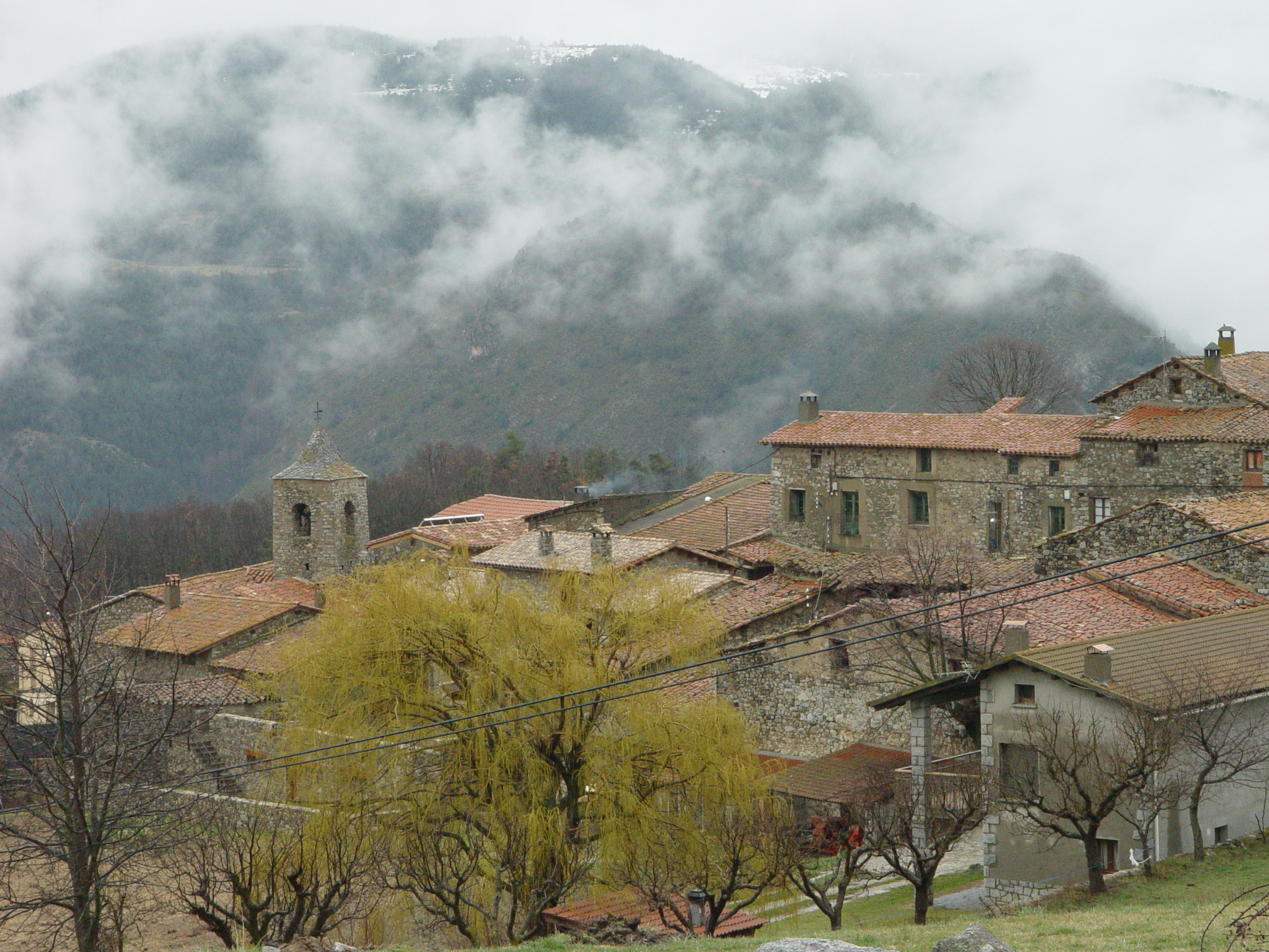 Town of Travesseres, Cerdanya, Catalonia.